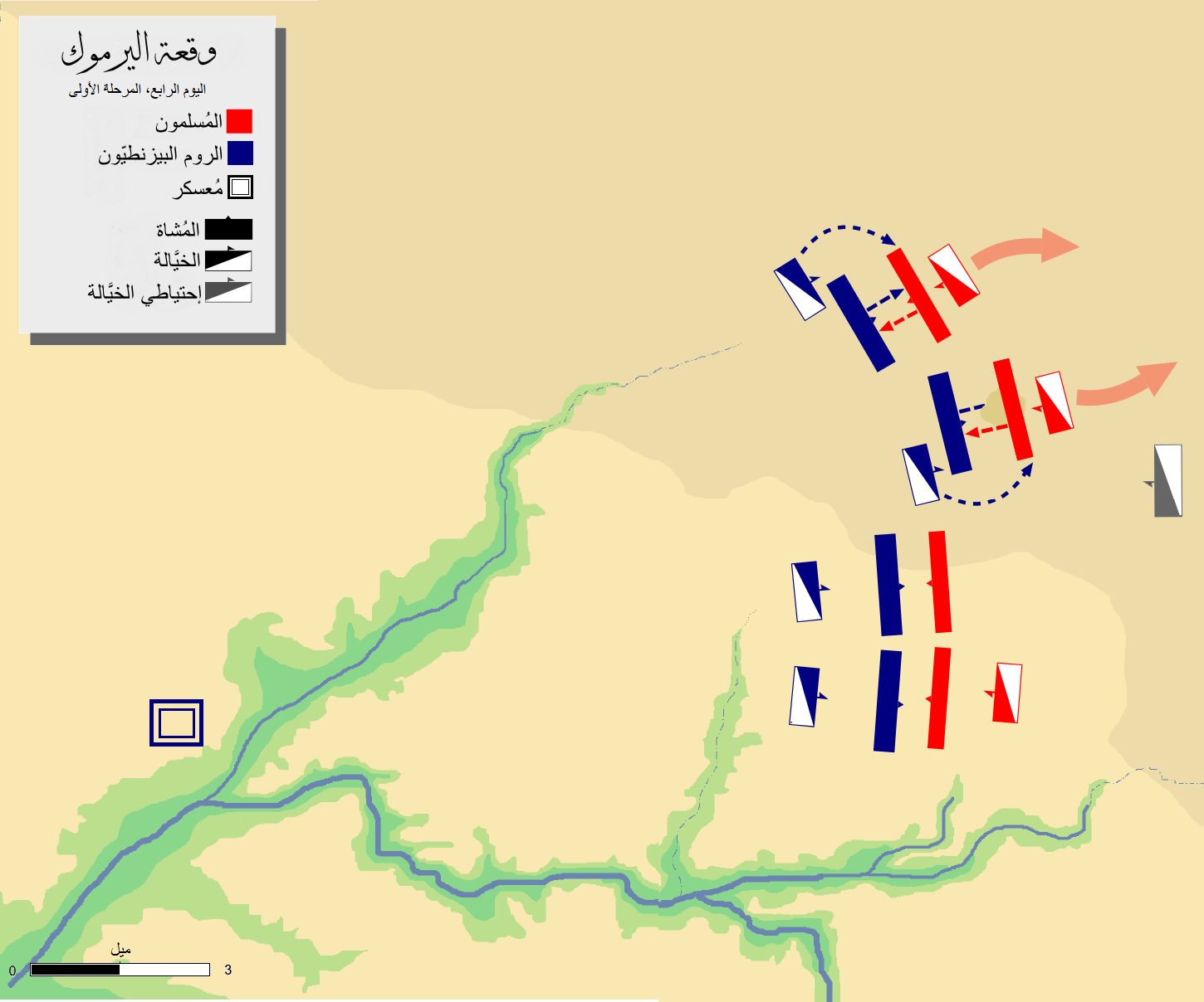 Battle_of_Yarmouk-day-4_phase-1